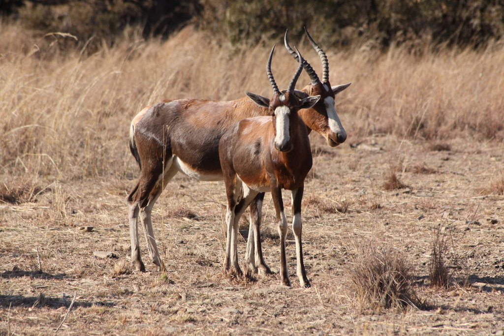 IMG_7492_facebook4